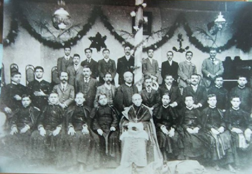 Ordination of priests in Roman Catholic Diocese of Tabasco, México when when was bishop Leonardo Castellanos y Castellanos (1862-1912)